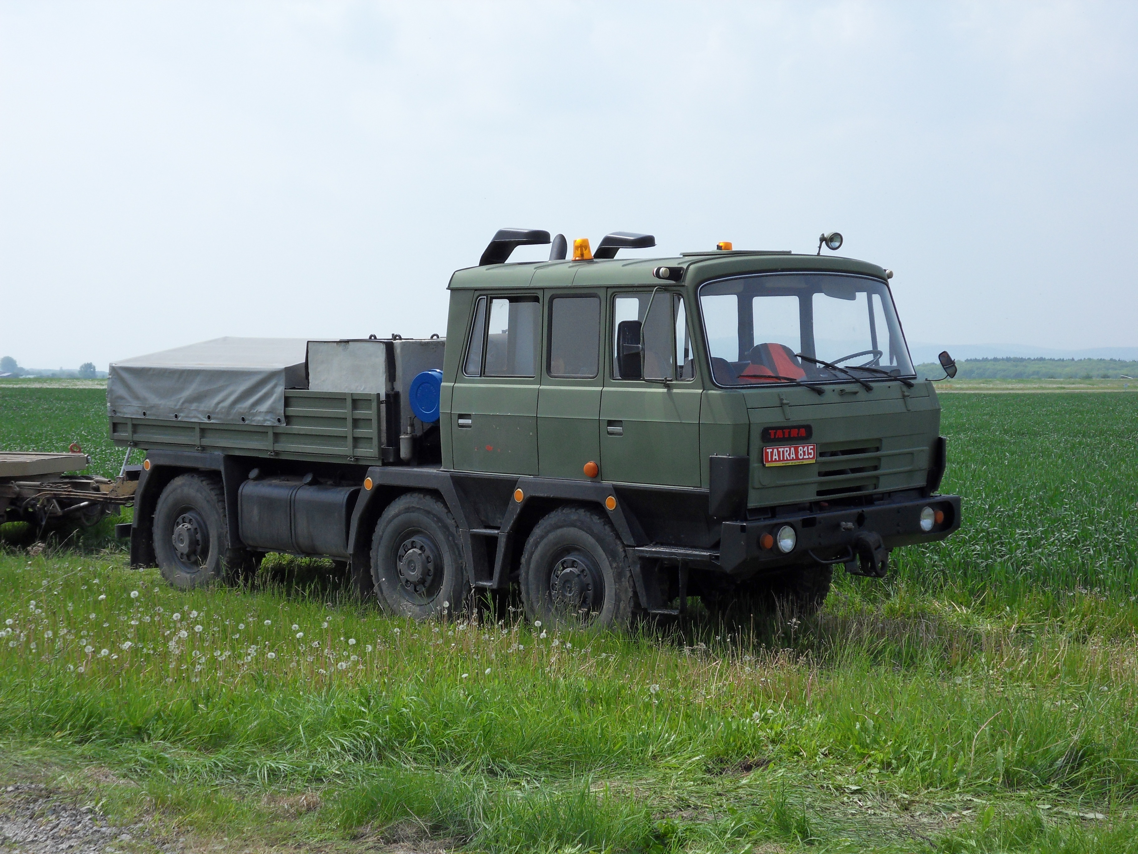 6x6 Tatra 815 truck, shot at Flugplatzfest 2010 at Alkersleben airfield.